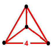 8-cell vertex figure